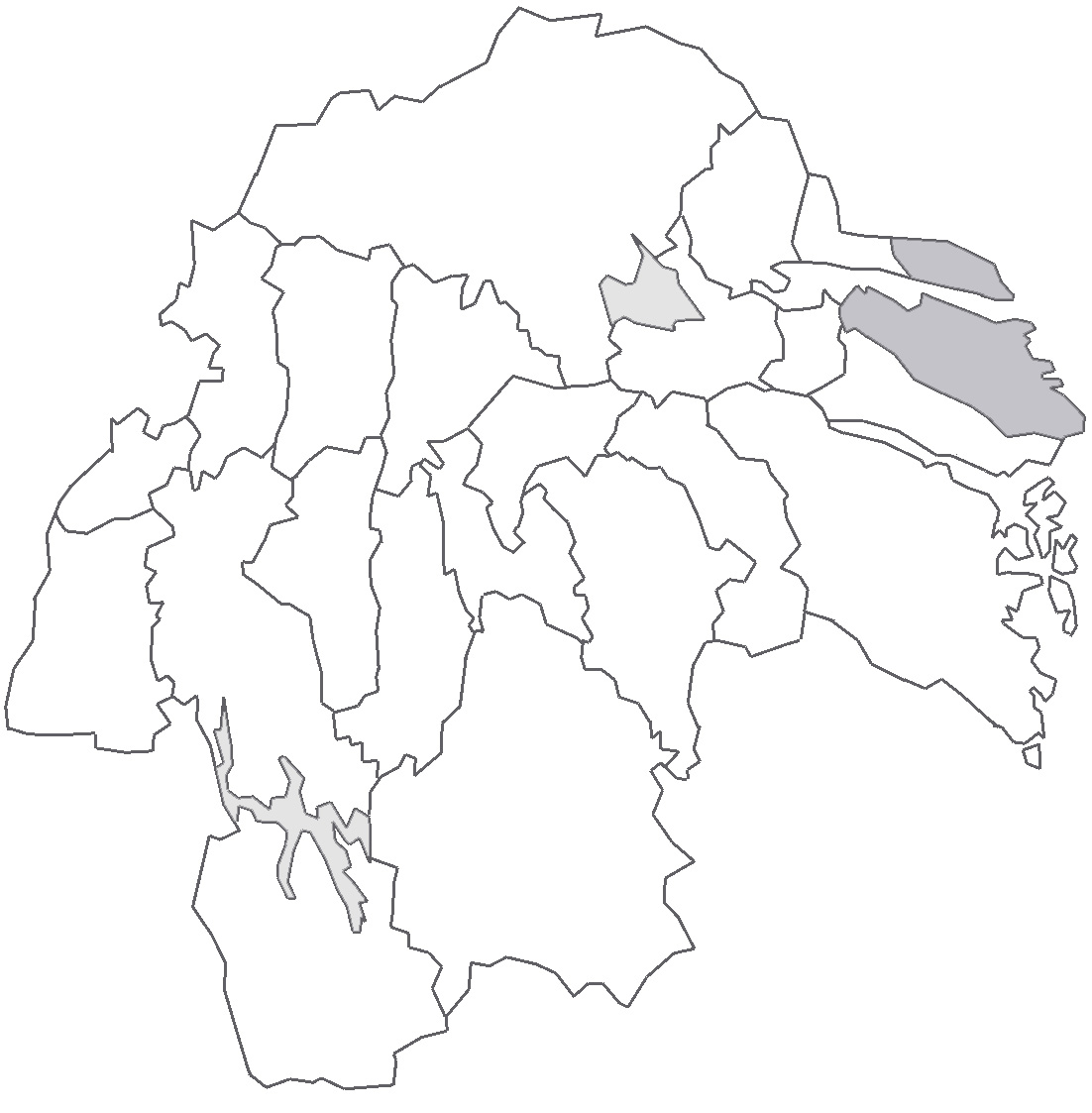 Map describing the location of Östkind Hundred in Östergötland County, Sweden.